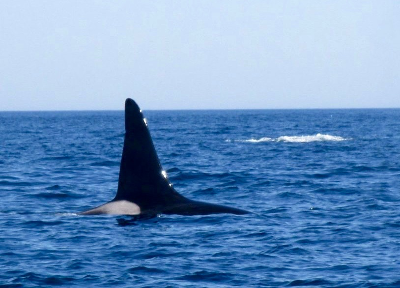 Orca 15 miles off Chatham, Massachusetts (Cape Cod) on July 5, 2016